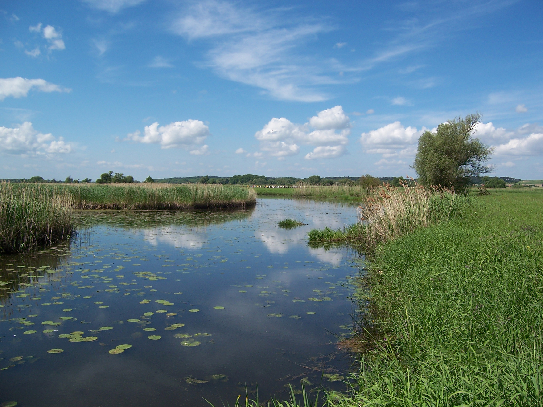 Typical water meadow in the National Park Unteres Odertal in Germany.